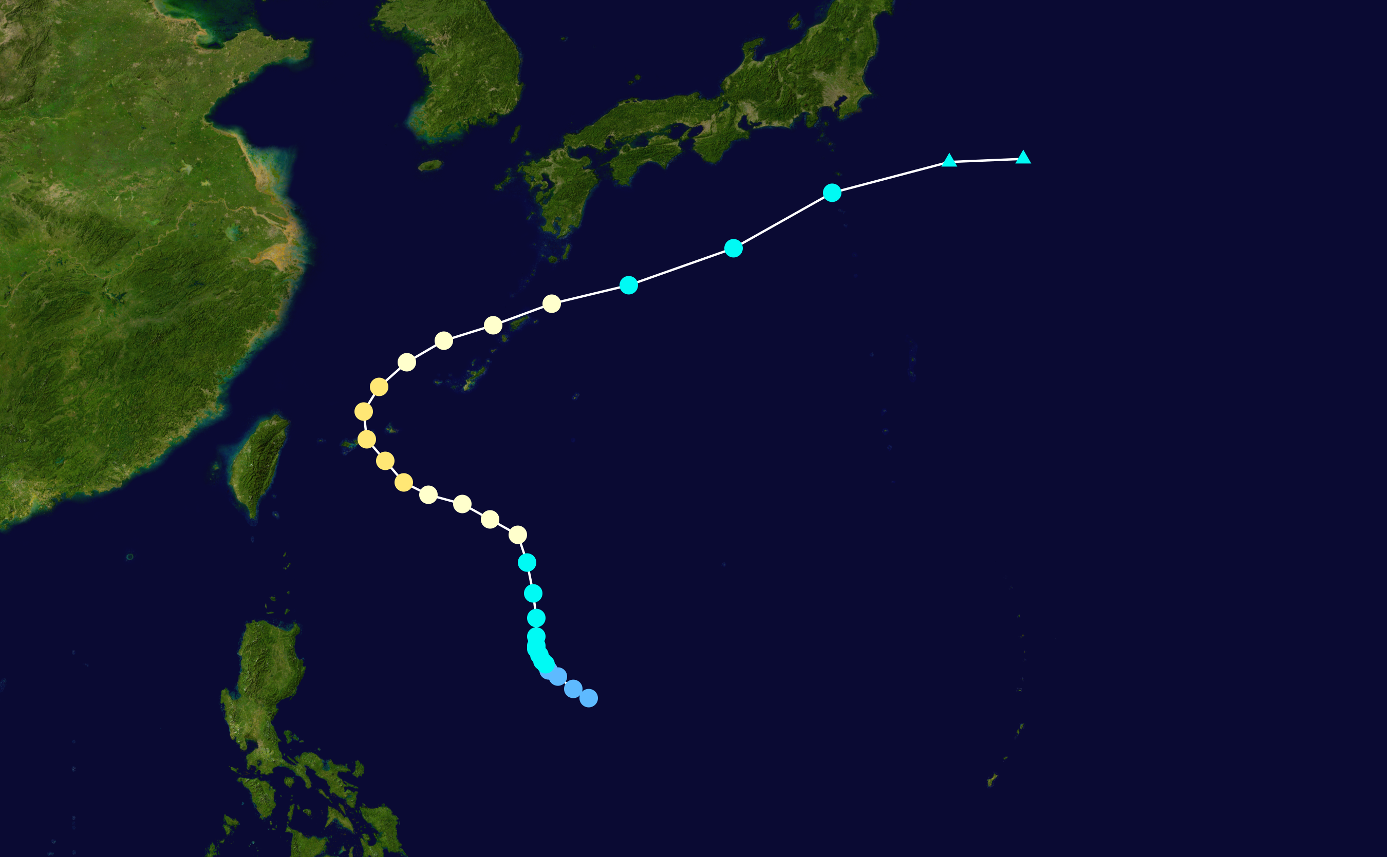 Track map of Typhoon Haiyan of the 2001 Pacific typhoon season. The points show the location of the storm at 6-hour intervals. The colour represents the storm's maximum sustained wind speeds as classified in the Saffir–Simpson scale (see below), and the shape of the data points represent the nature of the storm, according to the legend below. Saffir–Simpson scale Tropical depression≤38 mph≤62 km/h Category 3111–129 mph178–208 km/h Tropical storm39–73 mph63–118 km/h Category 4130–156 mph209–251 km/h Category 174–95 mph119–153 km/h Category 5≥157 mph≥252 km/h Category 296–110 mph154–177 km/h Unknown Storm type Tropical cyclone Subtropical cyclone Extratropical cyclone / Remnant low / Tropical disturbance / Monsoon depression